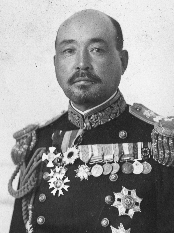 Vice Admiral Kajishiro Funakoshi